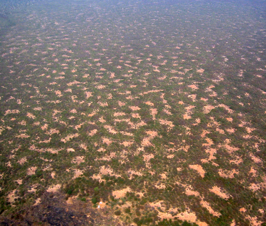 Aerial view of a gapped bush plateau in the Nigerian part of W regional park. Average distance between two successive gaps in the vegetation is 50 meters. Vegetation is dominated by Combretum micranthum and Guiera senegalensis.